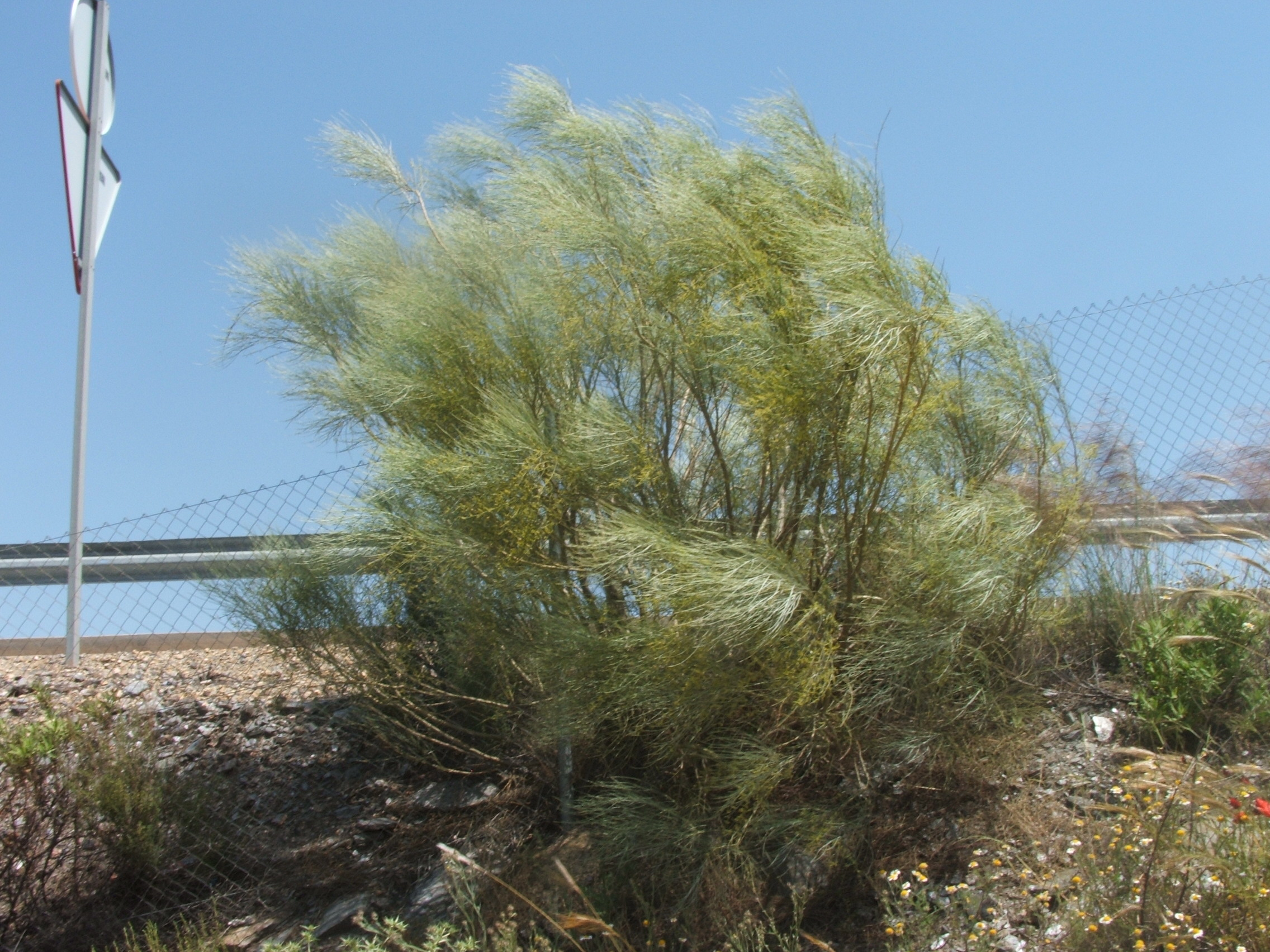 Retama sphaerocarpa